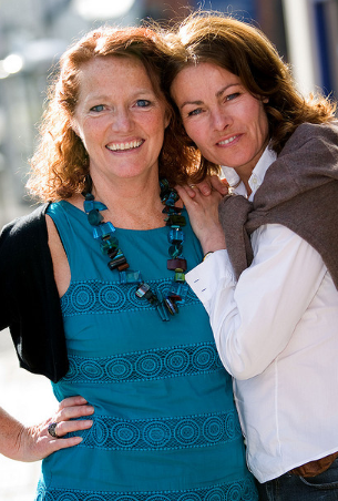 A image of actresses Louise Jameson (in blue) and Janet Dibley (in white), whom have both appeared in UK television.